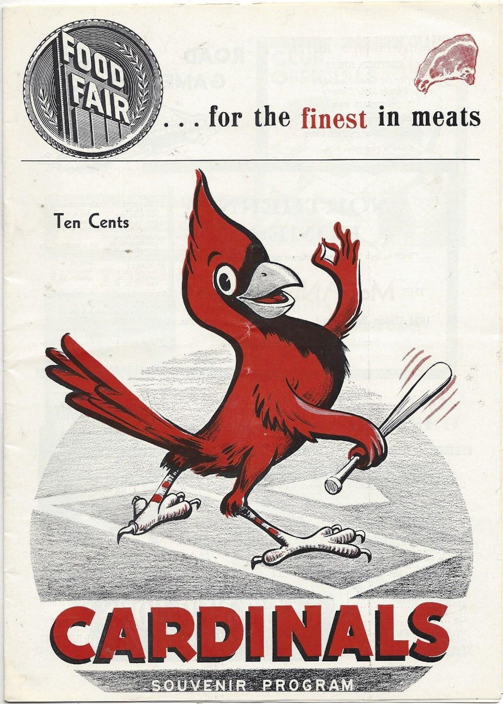 Allentown Cardinals Program Allentown PA (Last season of existence)